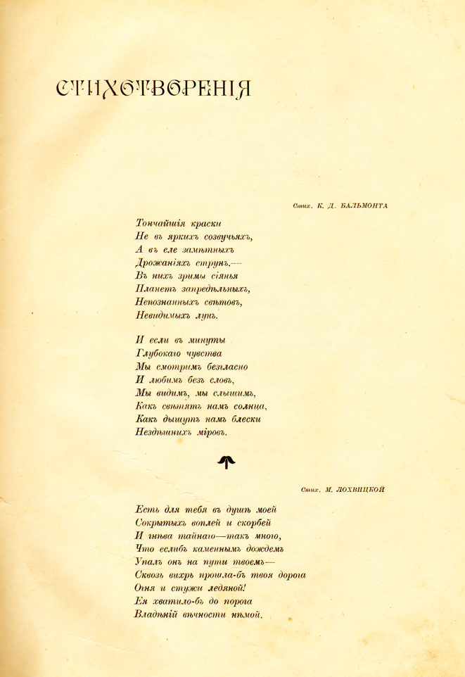 Poems by Konstantin Balmont and Mirra Lohvitskaya